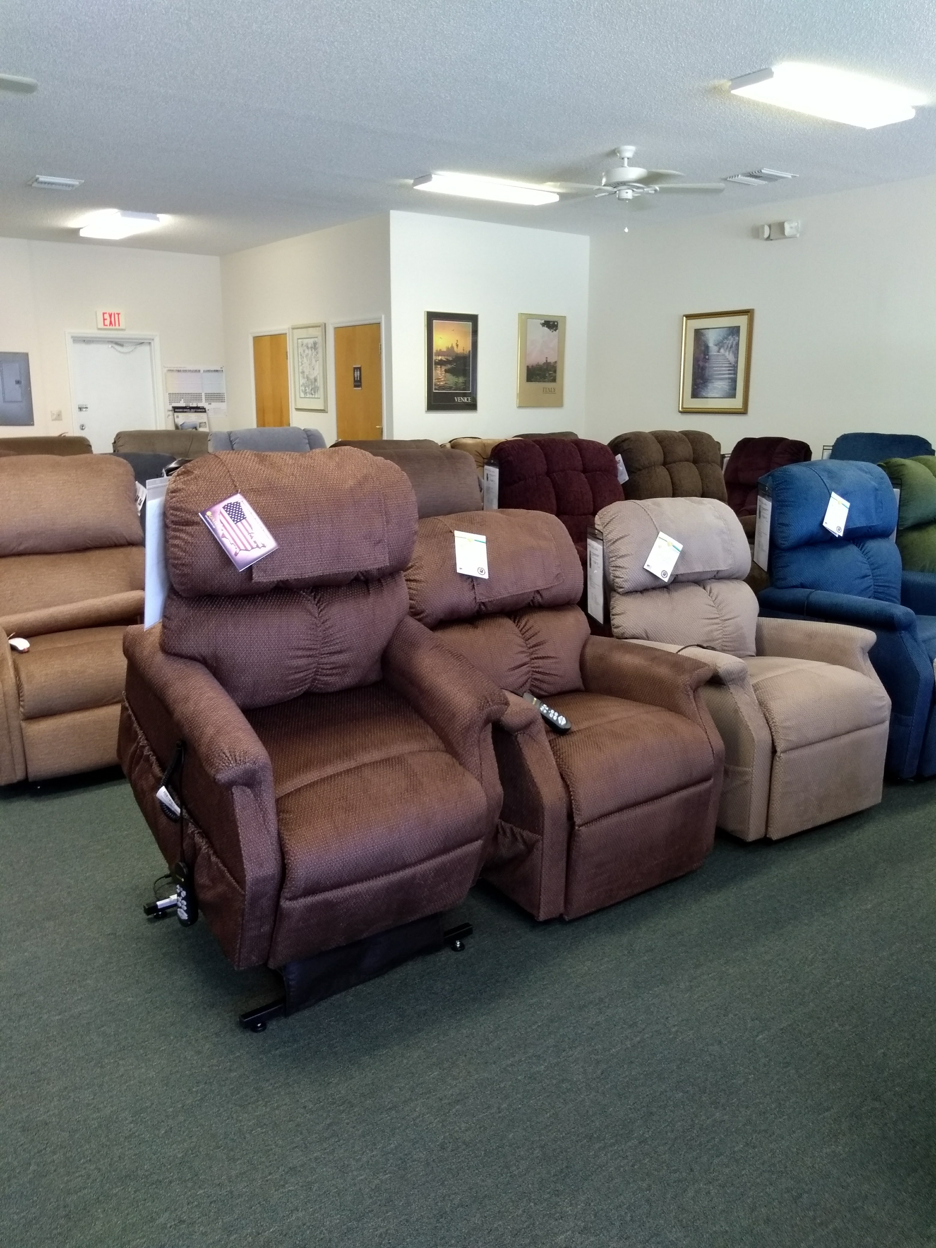 common lift chair